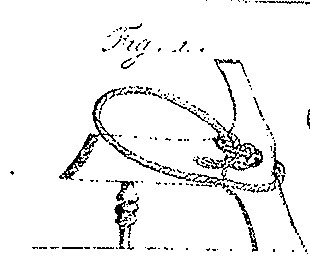 a drawing of a oarlock